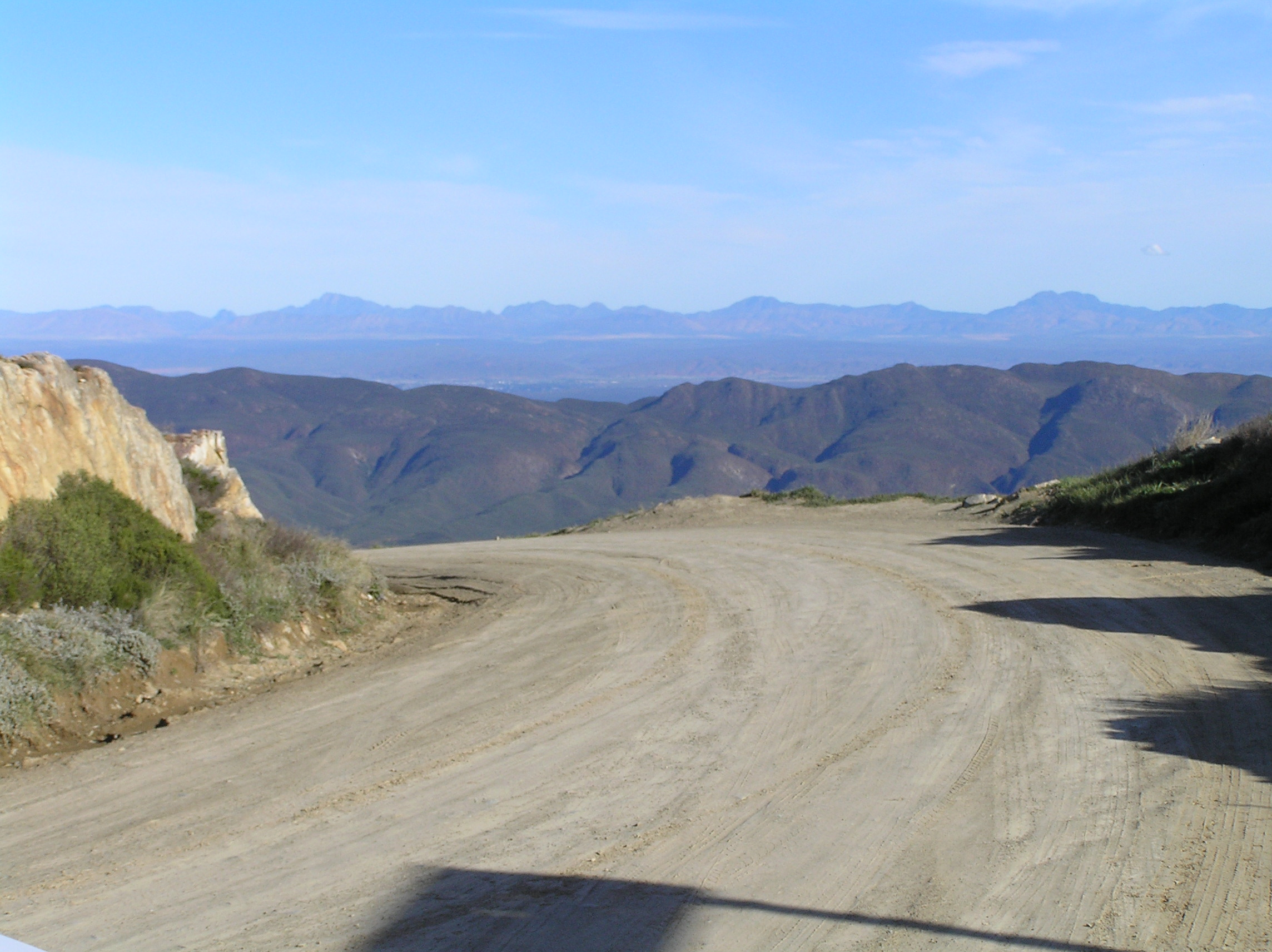 View south from the top of the Swartberg Pass - South Africa